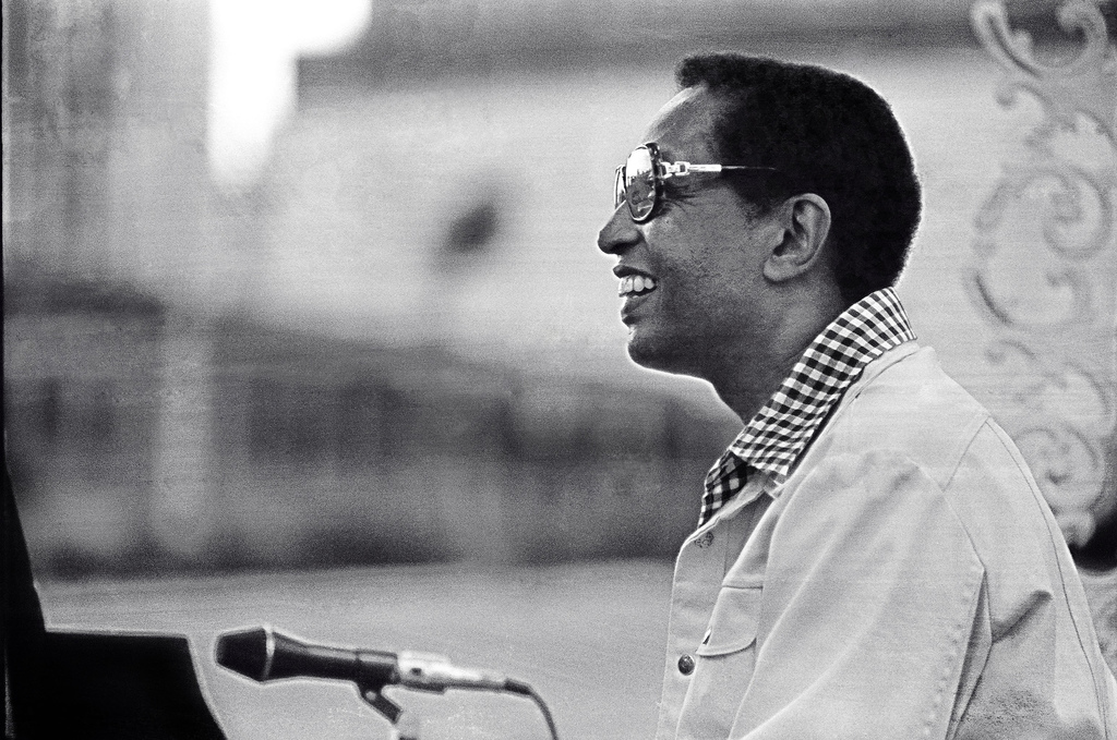 Billy Taylor Jazzmobile concert 1977